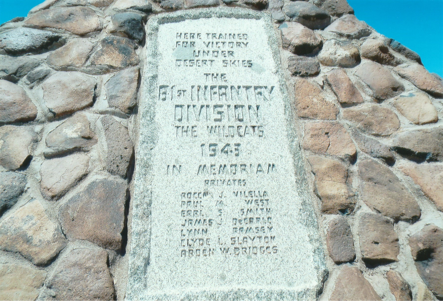 The Camp Horn Monument was added to the National Register of Historic Places in 2003, reference #03000900.